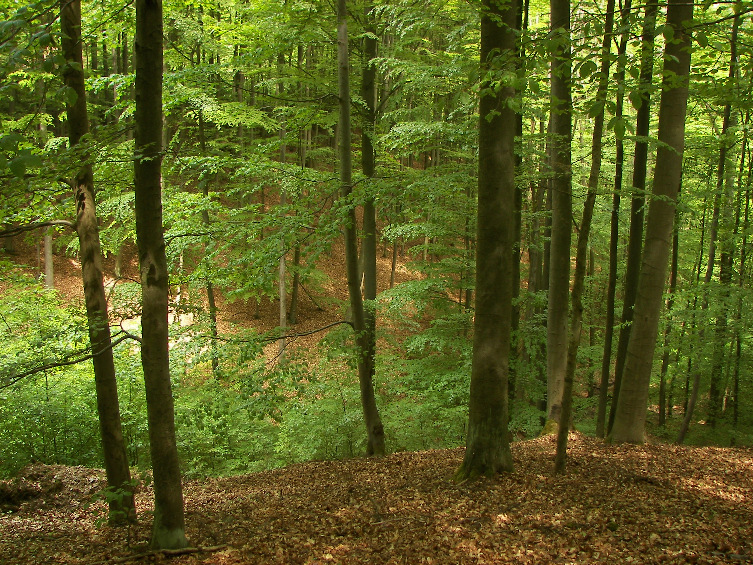 Kellerwald Urwaldsteig near Salzkopf, Hesse, Germany